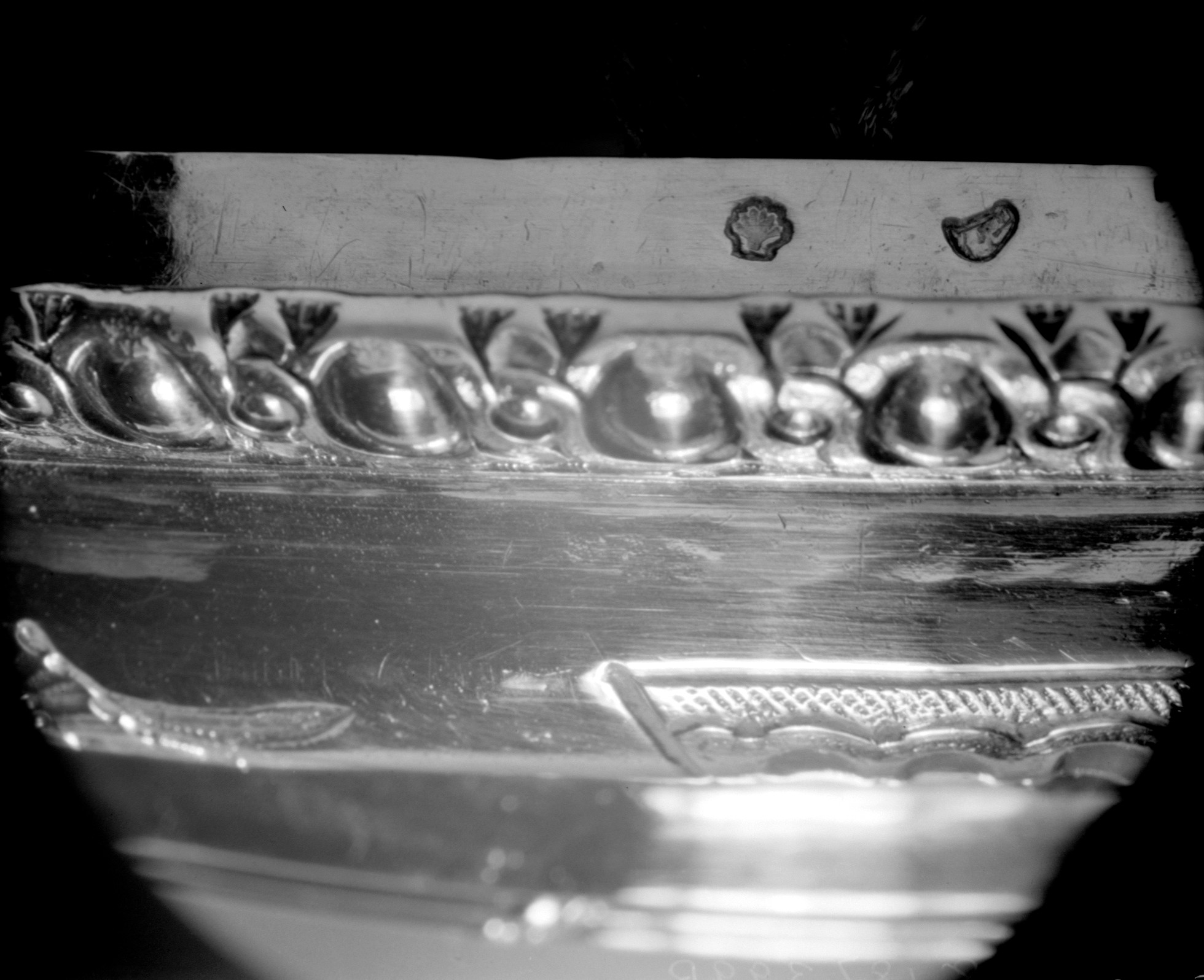 French, Paris; Bowl with cover (Écuelle); Metalwork-Silver